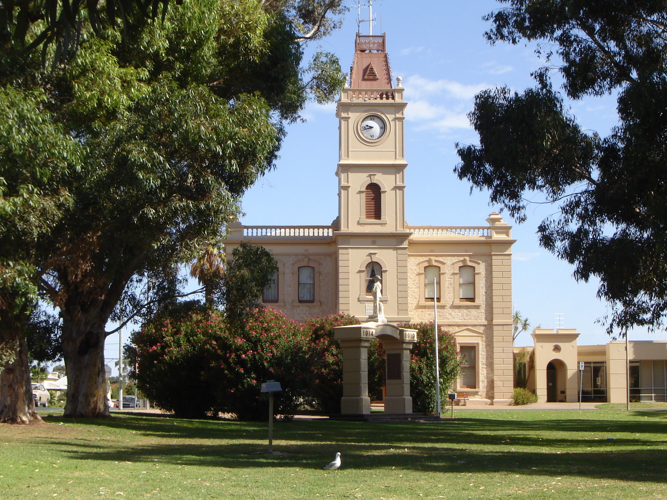 Kadina Town Hall. Photo by Frances76.